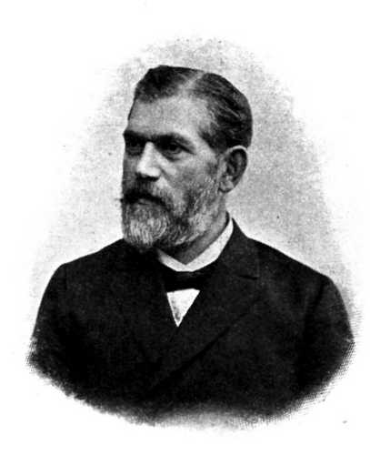 Julius Hirschberg (1843-1925), german ophtalmologist an medical historian